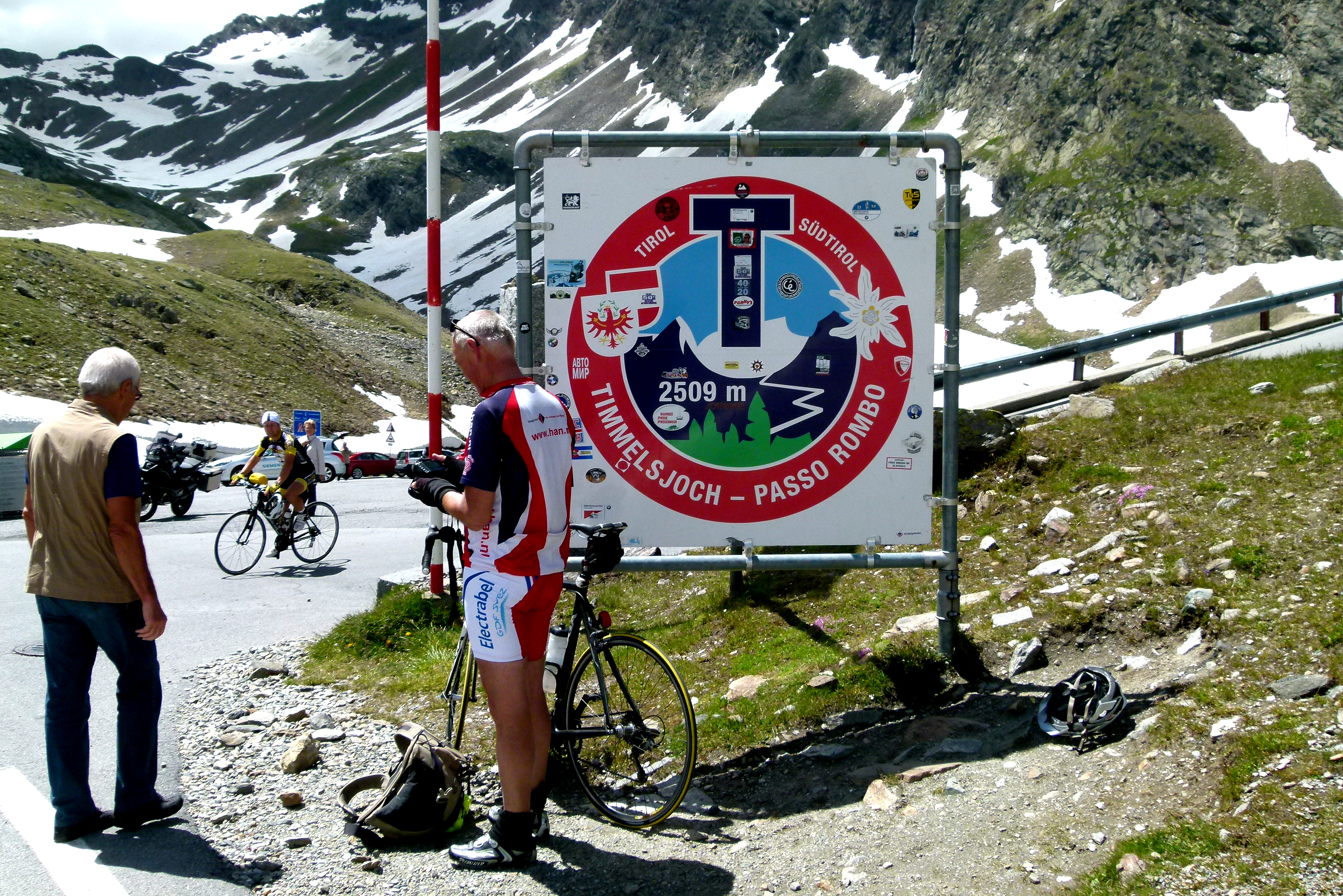 Timmelsjoch, Italy